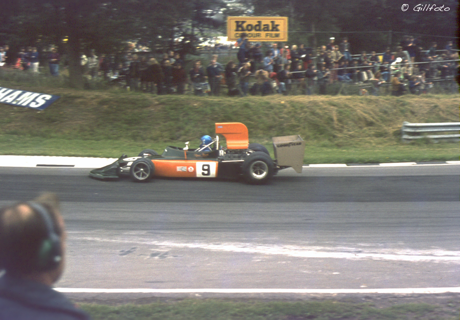 Hans Stuck (March 741) takes Druids Bend at Brands Hatch during the 1974 British Grand Prix